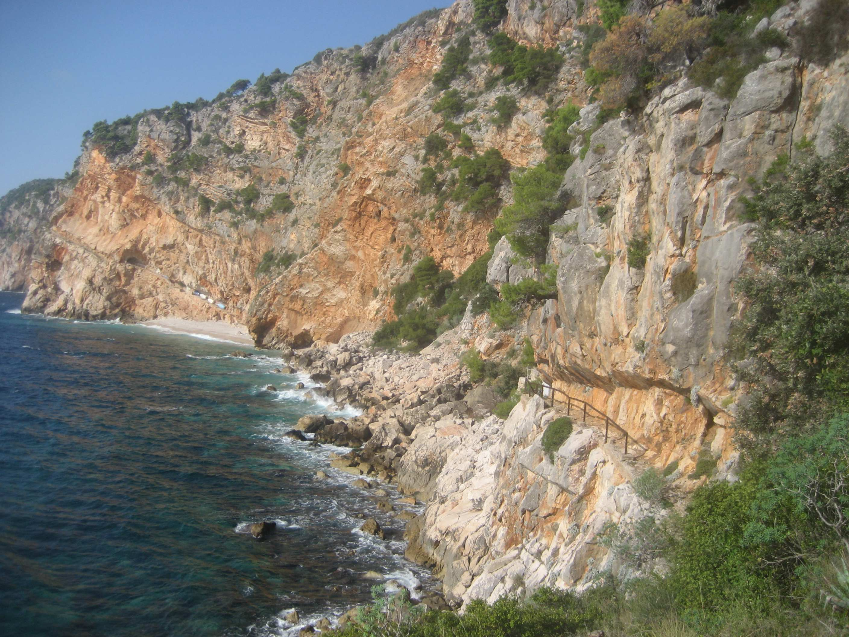 Konavoske stijene